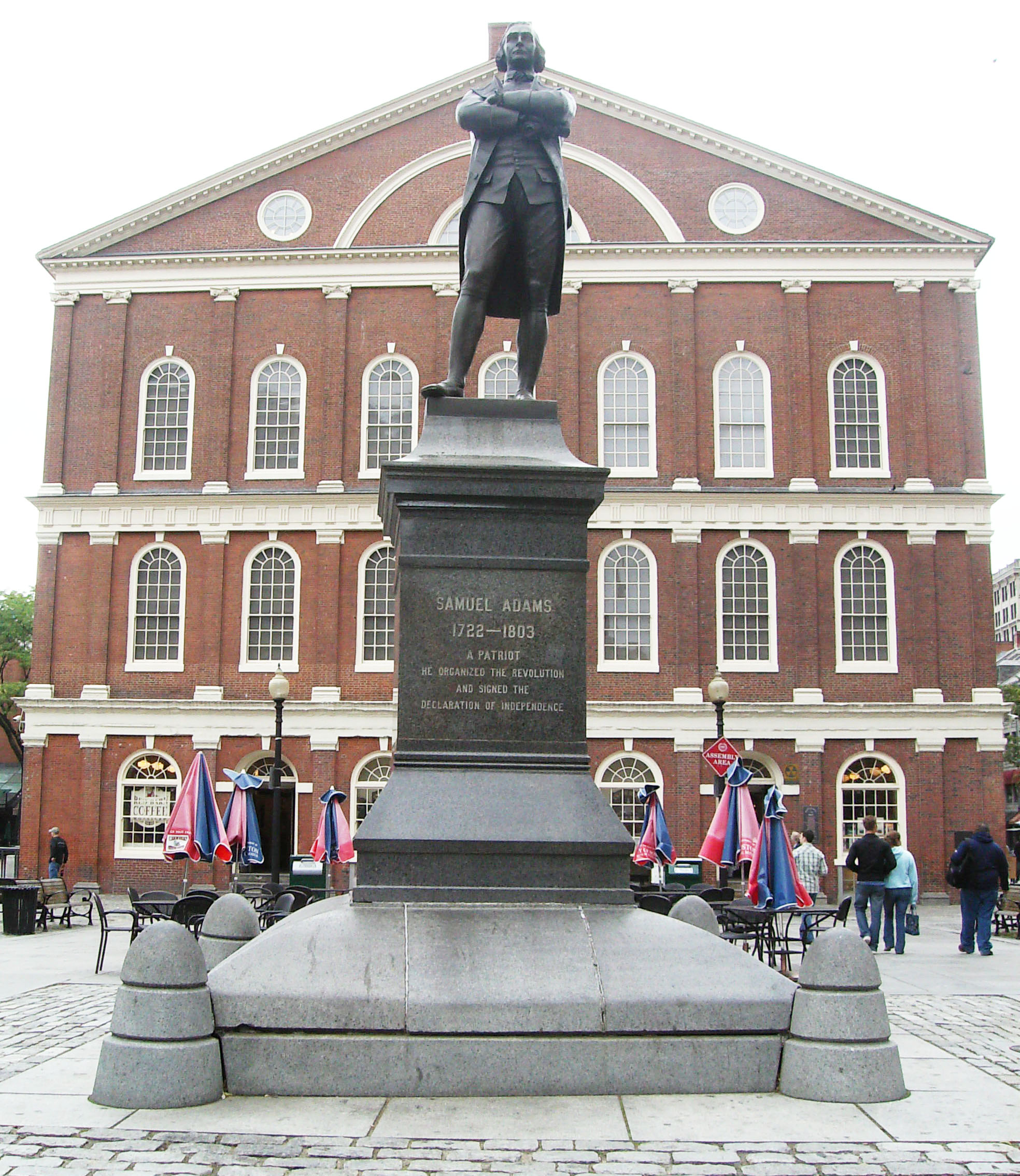 Picture of the Statue of Samuel Adams, in front of the West side of Faneuil Hall